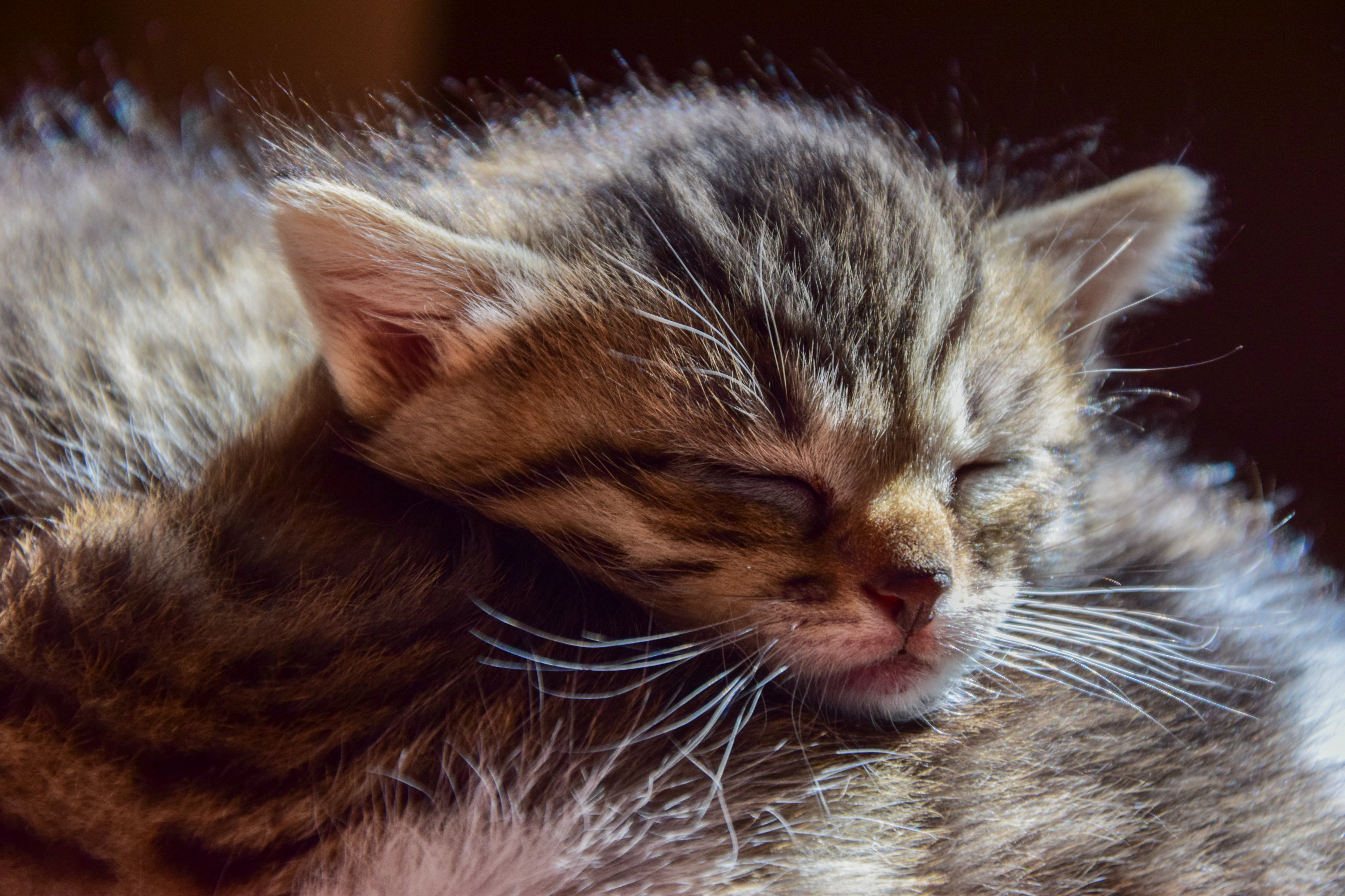 1-month-old kittens sleeping on each others